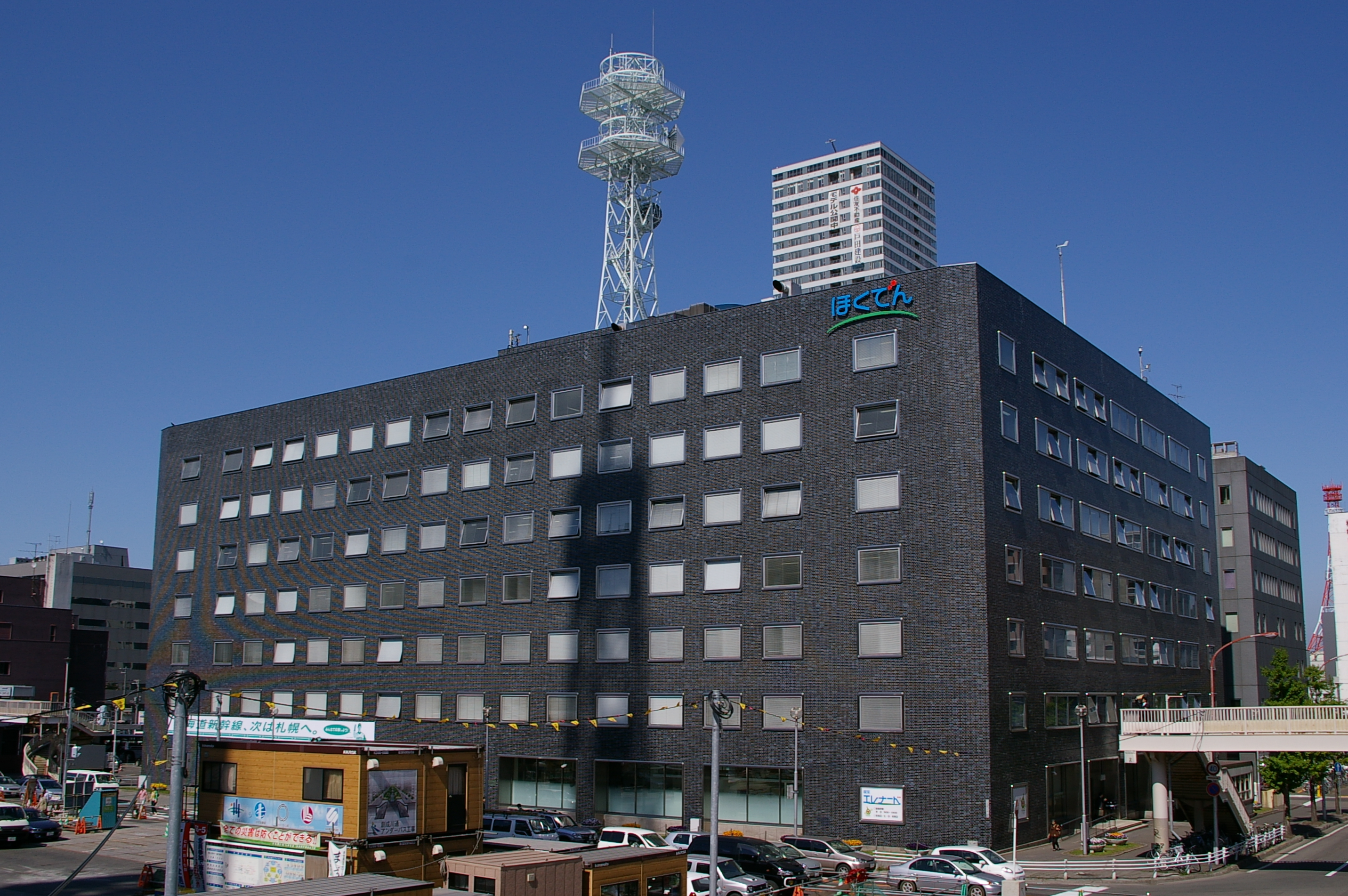 Photograph of Hokuden Building, headquarters of Hokkaido Electric Power Company, in Chuo-ku, Sapporo, Hokkaido, Japan.